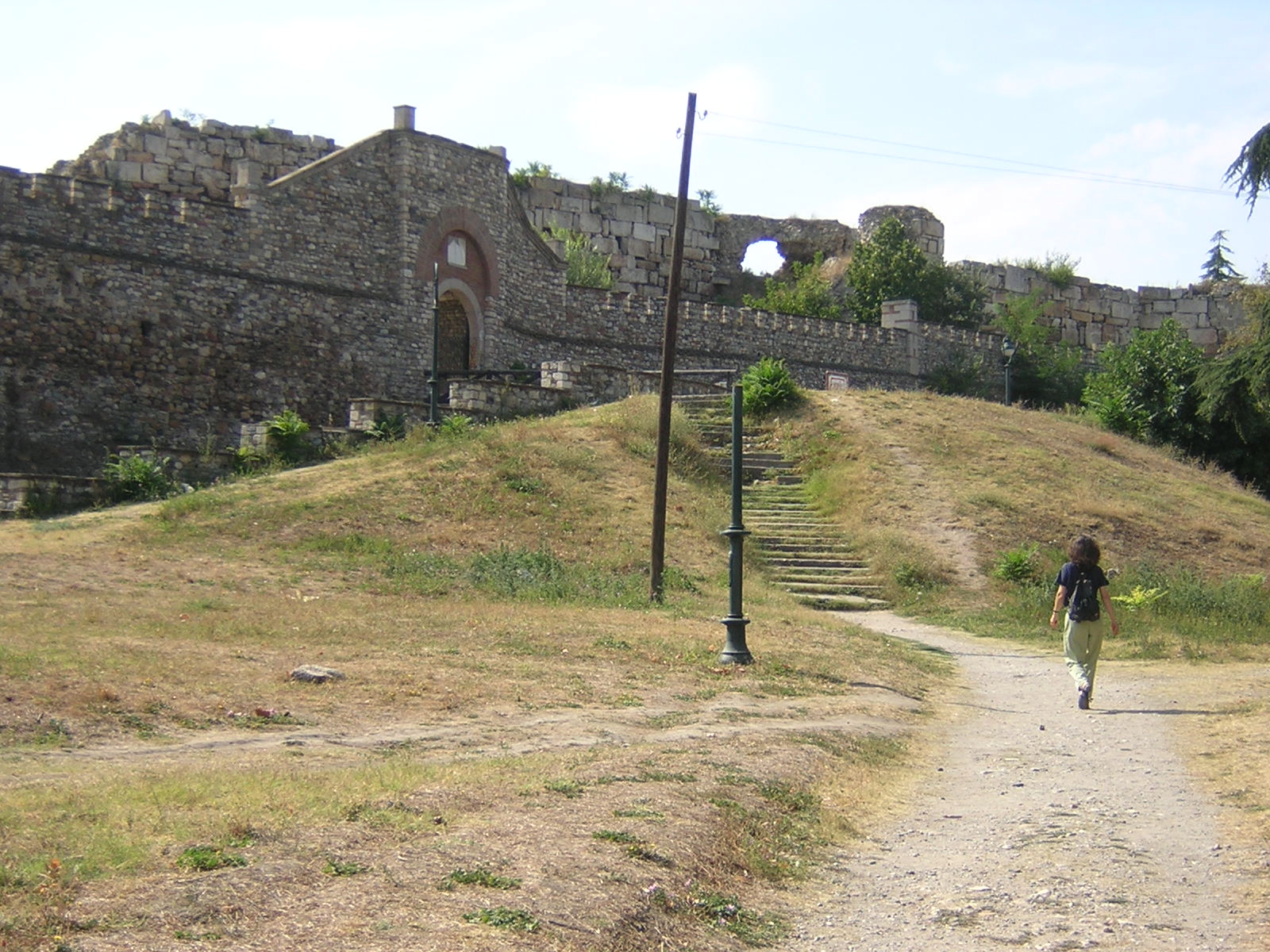 The entrance to the (ruins of the) Kale Fort, Skopje